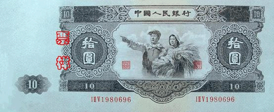 Front of second series 10 yuan renminbi